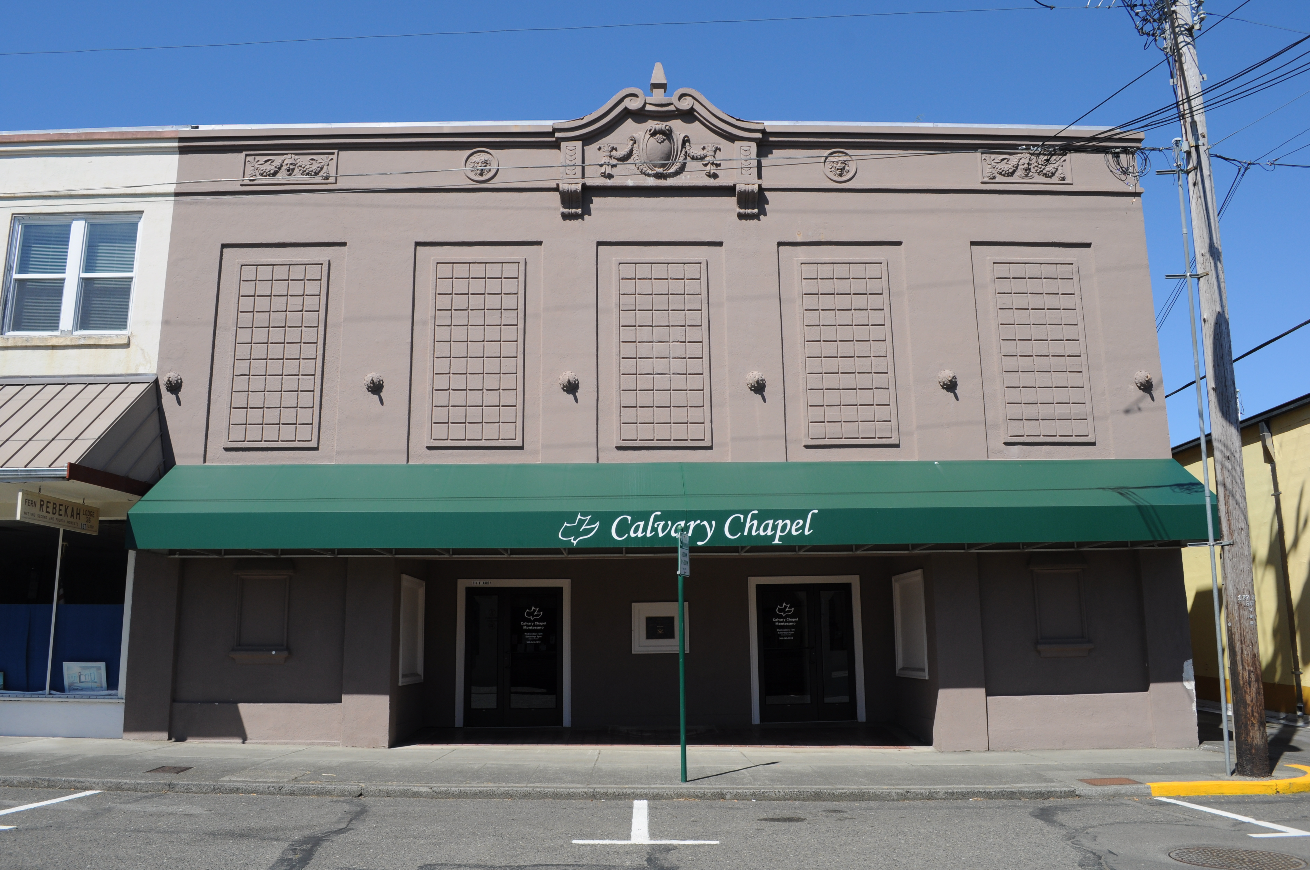 Calvary Chapel, the former Montesano Theater, 114 West Marcy Avenue, Montesano, Washington. The former Montesano Theater building is now the Silvia Building, owned by Silvia Oddfellow Lodge No. 38 IOOF. It houses the lodge and also this chapel.